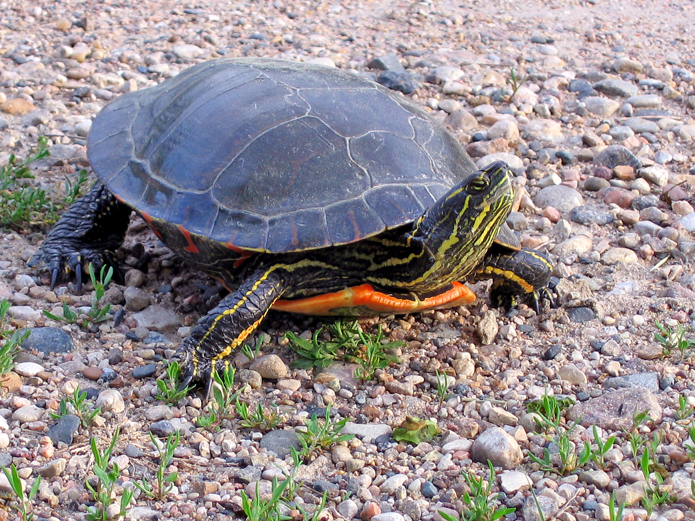 The painted turtle is often seen basking in the sun on a rock or stump along the waters edge. Photo Credit: Gary Eslinger/USFWS